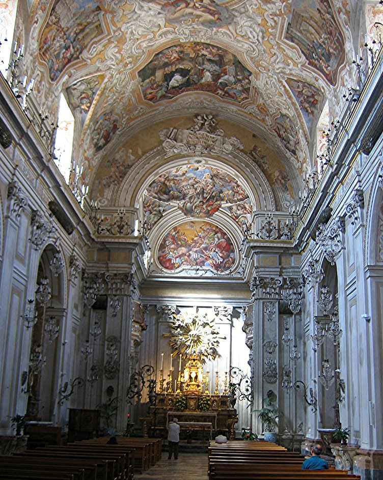 Catania (Italy) - San Benedetto church. Picture by Urban, August 2005. Body: Canon Powershot A80.